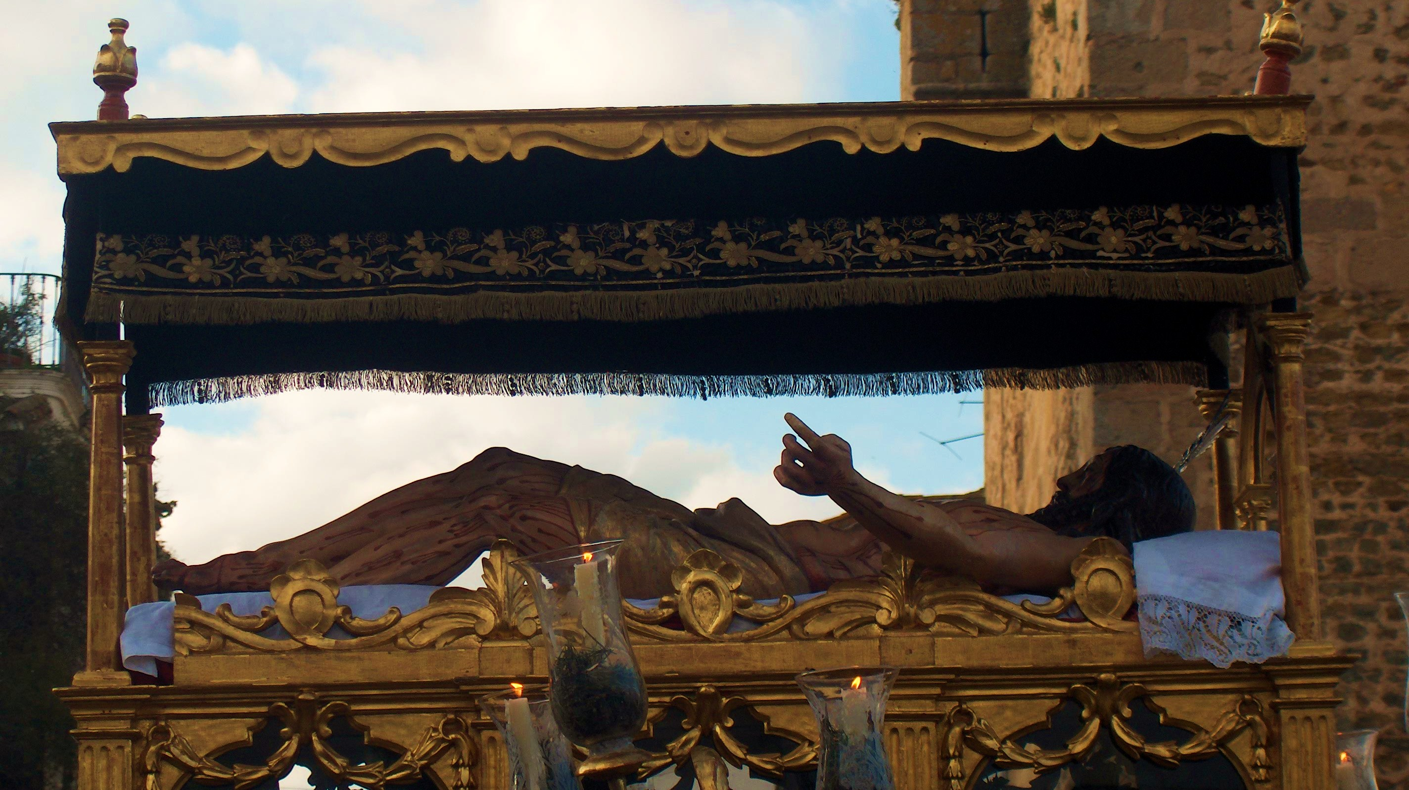 holy entierro